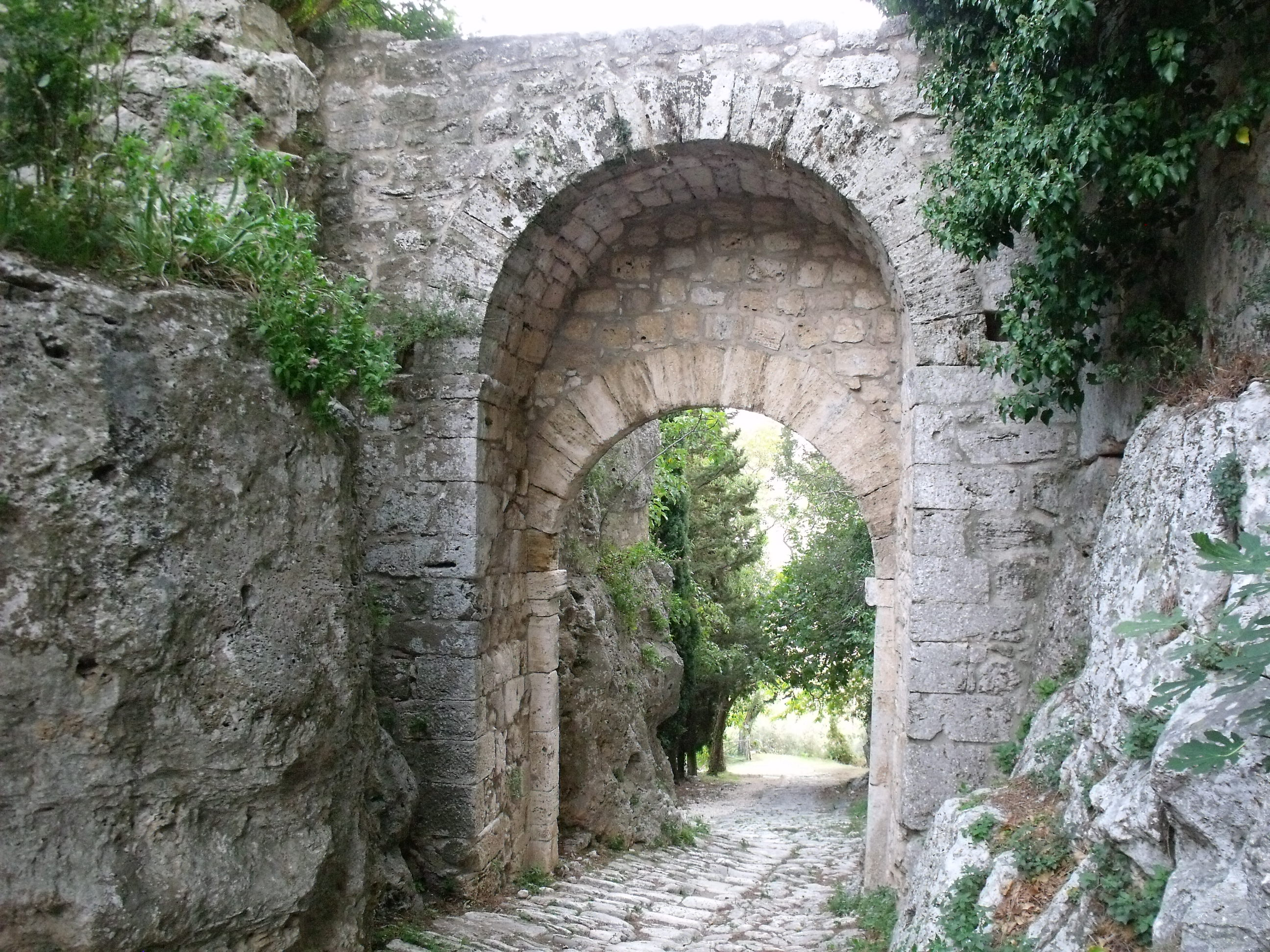 Roman City Gate Porta Romana in Saturnia (seen from the inside), Hamlet of Manciano, Maremma, Province of Grosseto, Tuscany, Italy